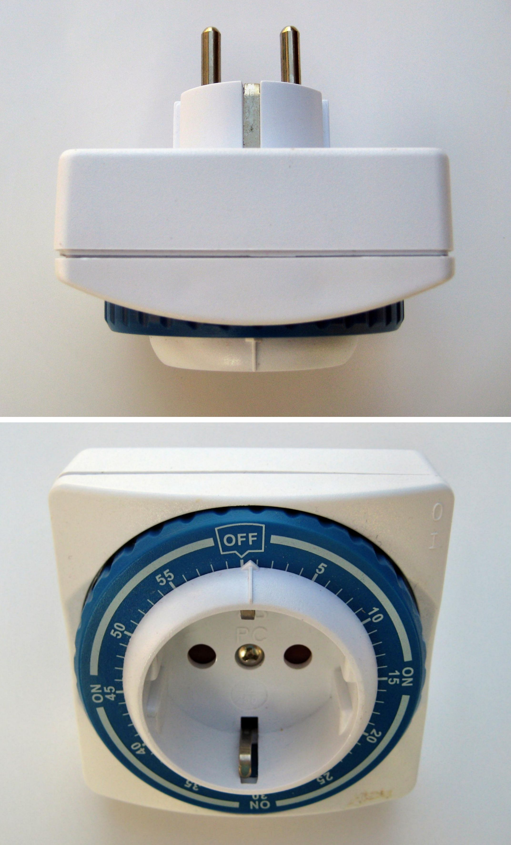 Countdown Timer Type 8G1H/1A for 60 minutes. 230 V, 16 A.